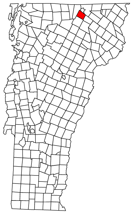 Description: Map of Vermont towns with Coventry highlighted Source: Map created by Jared C. Benedict on 26 March 2004. Copyright: © Jared C. Benedict.